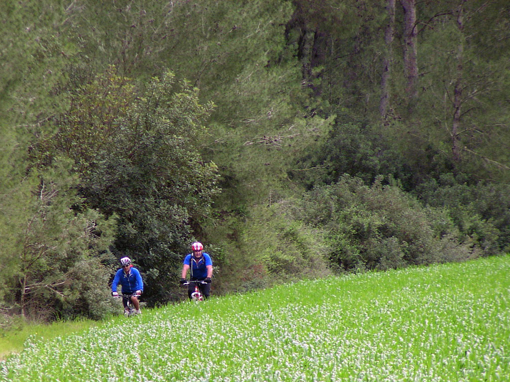 Bike riders at Haruvit forest